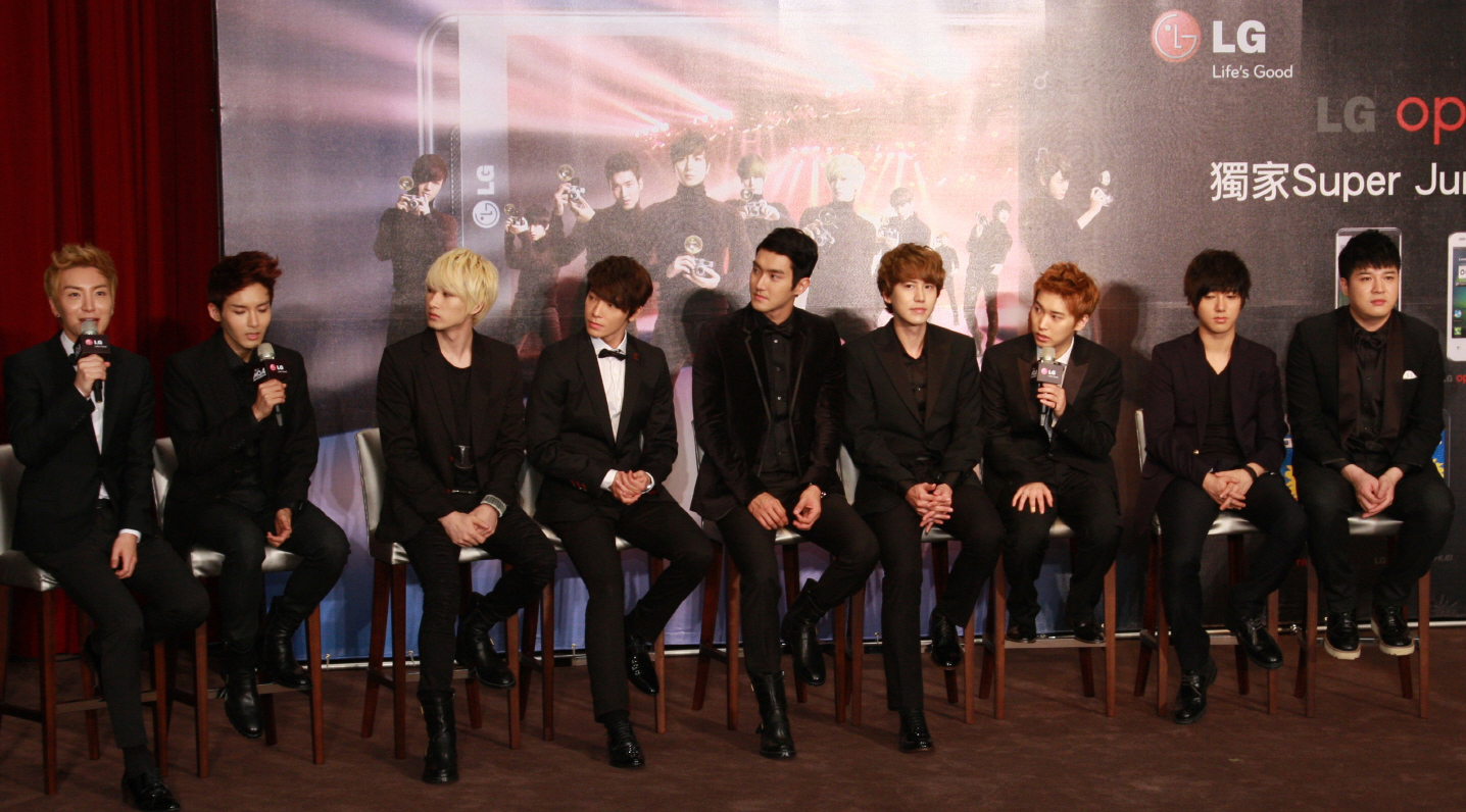 Super Junior at Kaohsiung Arena, Taiwan, 2011. Cropped version